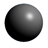 ball